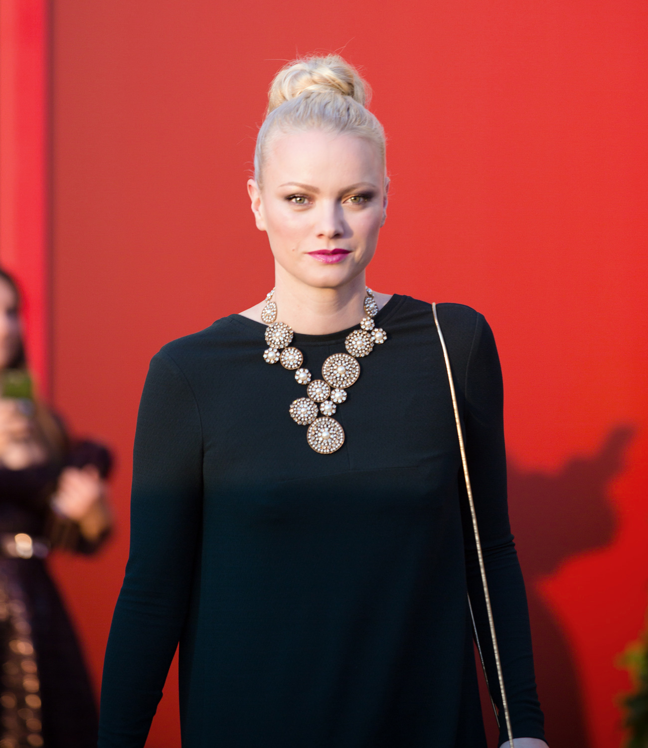 Franziska Knuppe on the red carpet of the Romy TV awards 2016 at Hofburg Palace in Vienna, Austria.